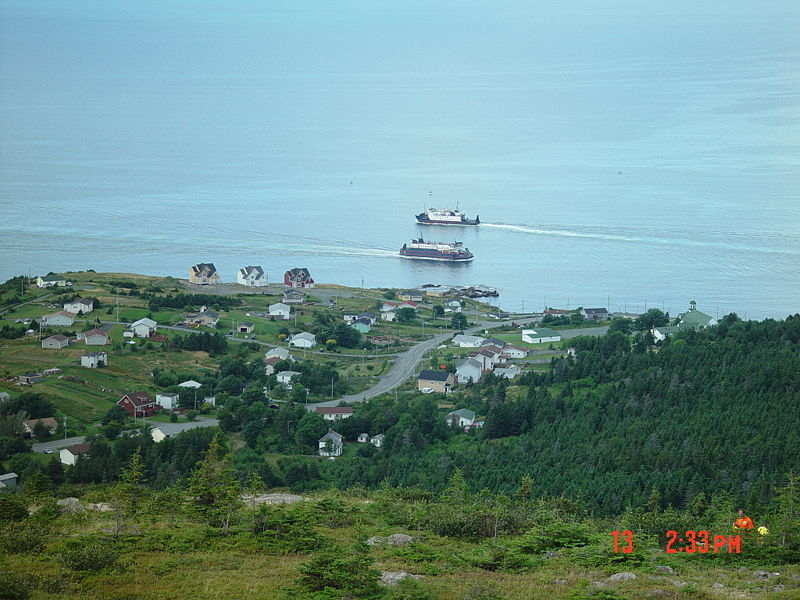 Portugal Cove, NL, showing the two Bell Island ferries.